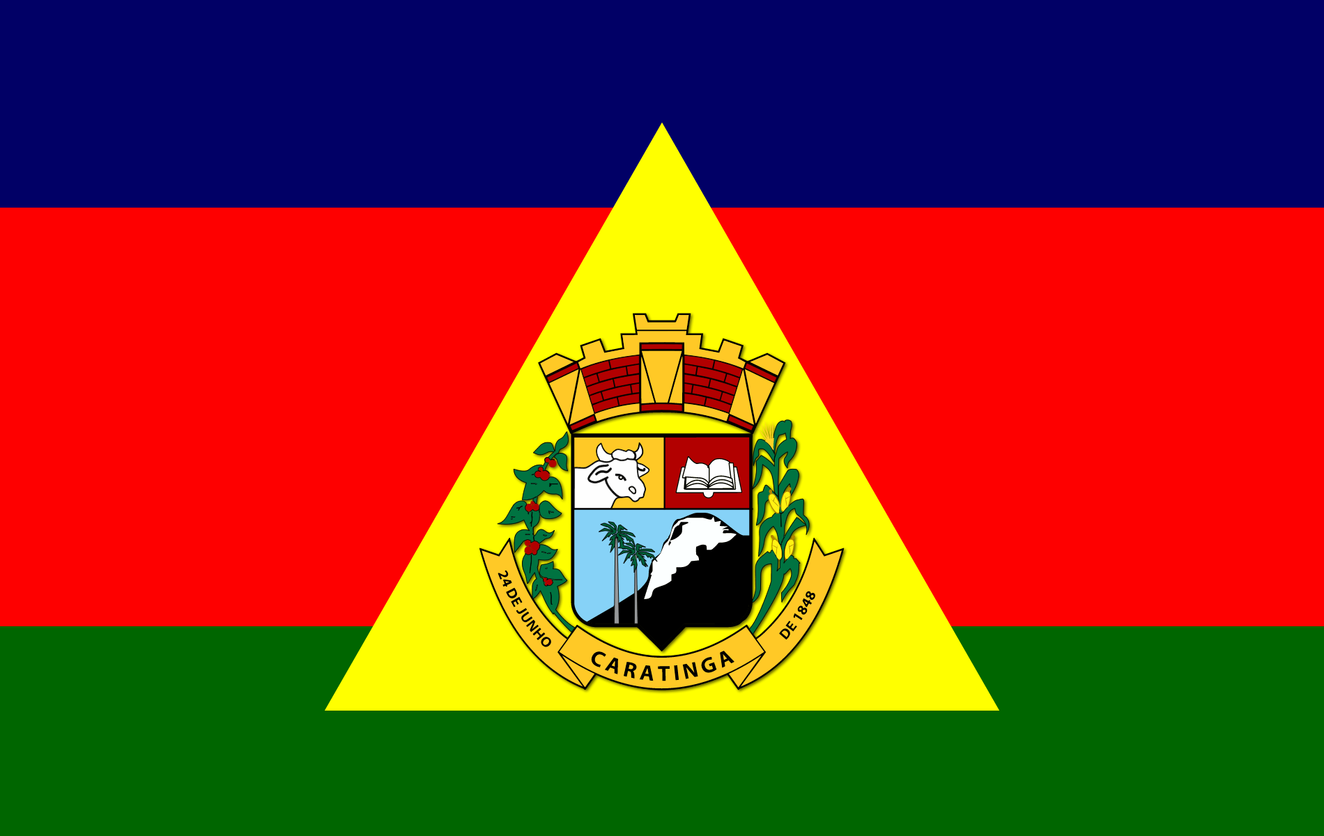 Flag of the city of Caratinga, Minas Gerais, Brazil, instituted by the Law No. 975/1977